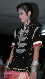 Bill Timmins, original work.